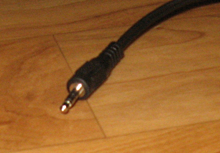 TRS-connector